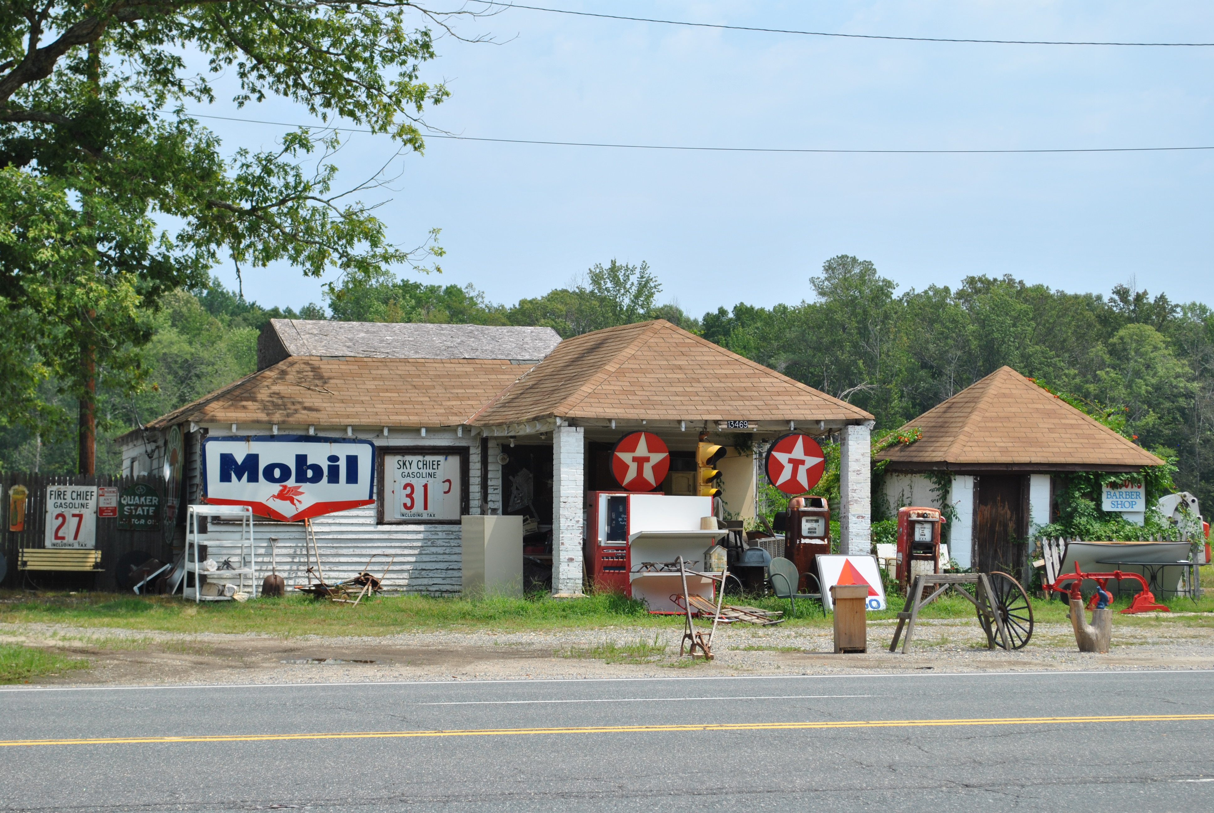 This antique shop had a bunch of cool old signs. It's located on Route 1 in Caroline County.